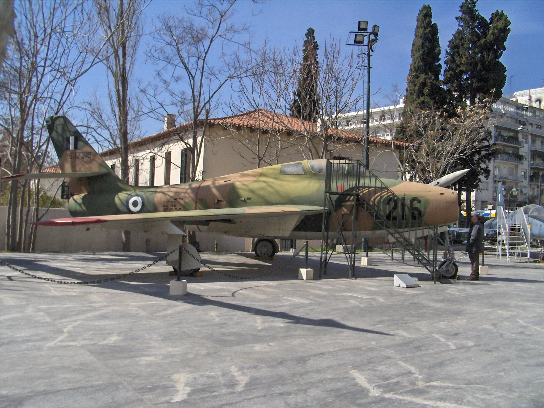 Exhibit at the War Museum in Athens. F-84 Thunderstreak